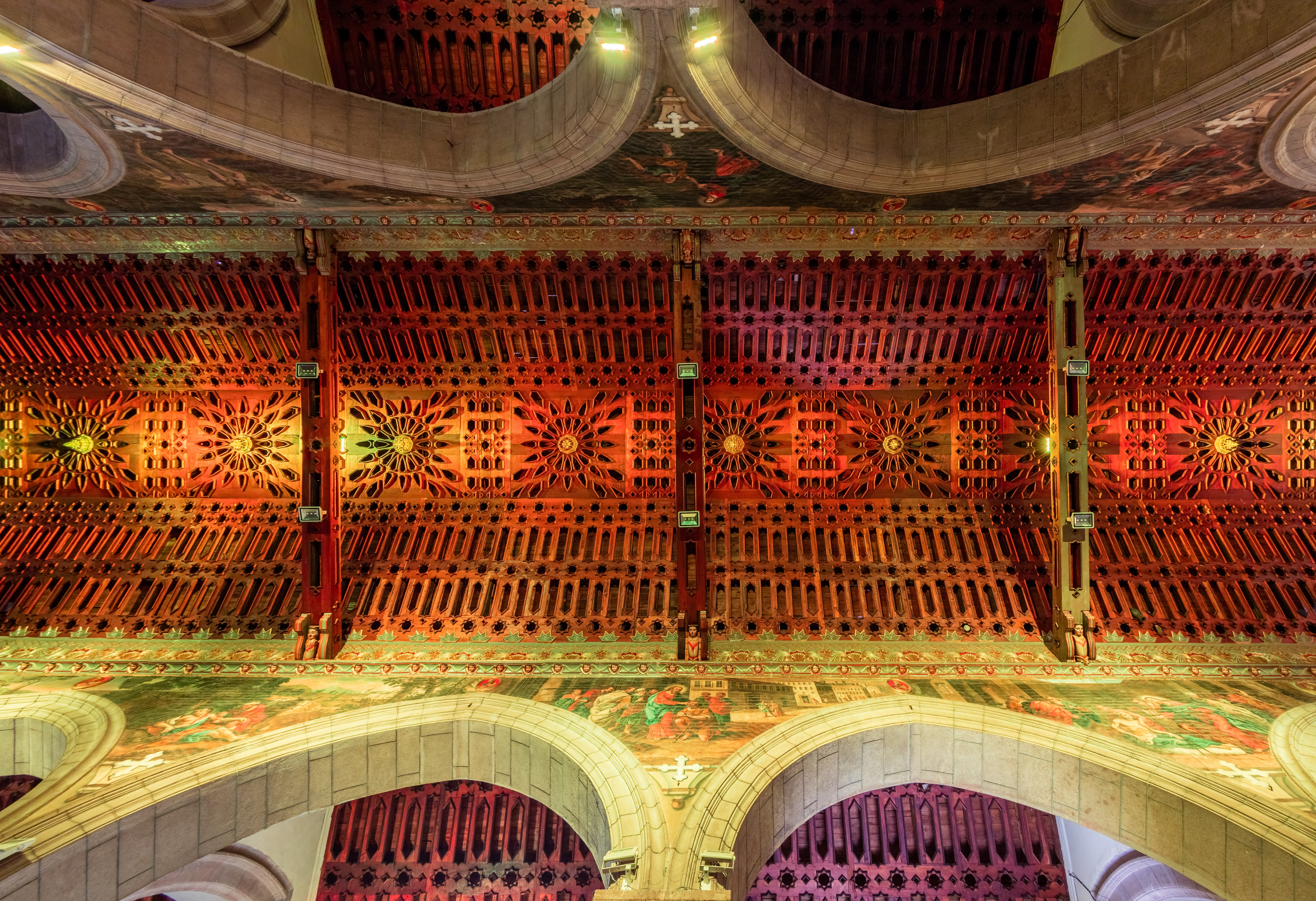 Quito cathedral, Quito, Ecuador